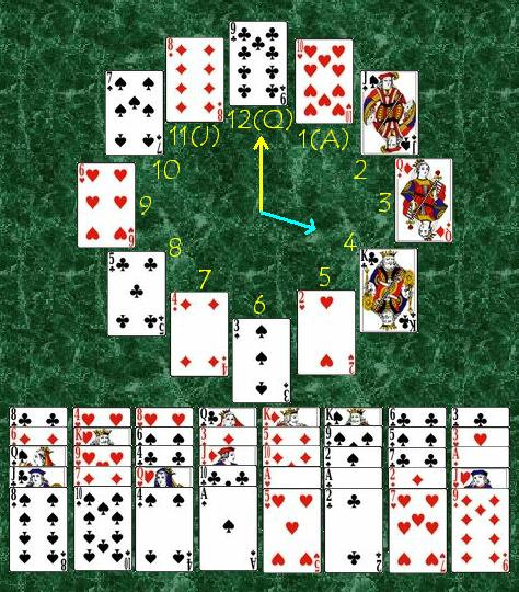 This is a diagram of the game of Grandfather's Clock, based on a simulated layout. The image is made in Microsoft Paint and the cards used were based on the SVG Playing Cards.